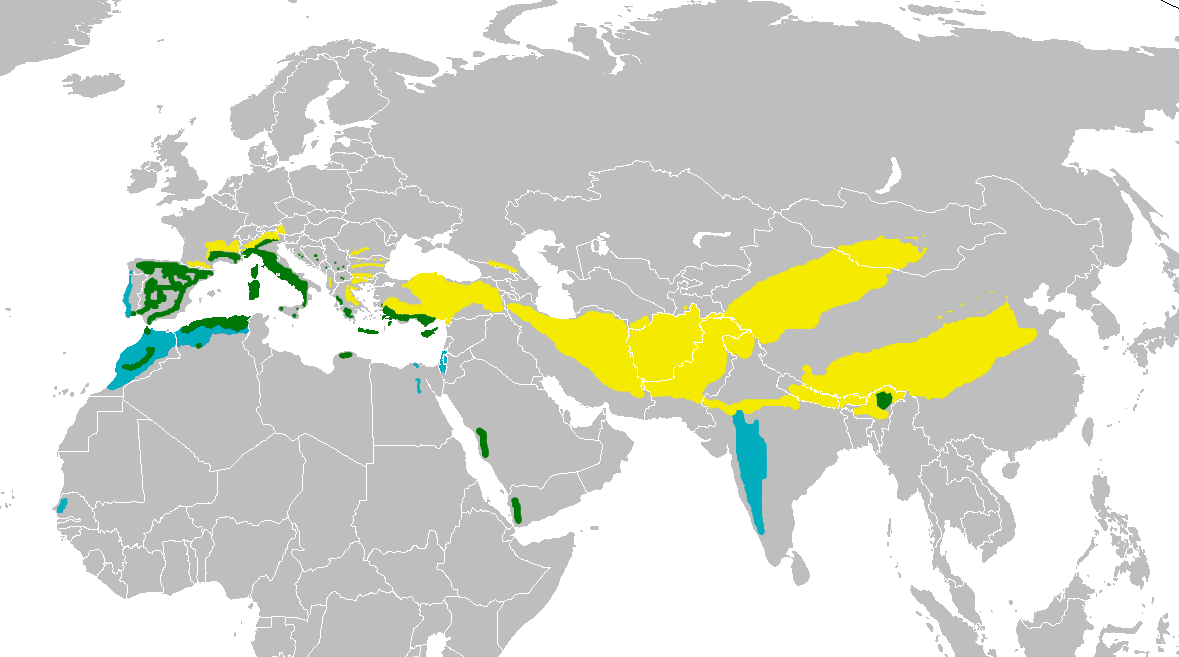 Range map of Ptyonoprogne rupestris Based on data from Mullarney, Killian; Svensson, Lars; Zetterstrom, Dan; Grant, Peter (1999). Collins Bird Guide. London: HarperCollins. ISBN 0-00-219728-6. p. 240 Snow, David; Perrins, Christopher M (editors) (1998). The Birds of the Western Palearctic concise edition (2 volumes). Oxford: Oxford University Press. ISBN 0-19-854099-X. p.1060 Turner, Angela K; Rose, Chris (1989). A handbook to the swallows and martins of the world. Christopher Helm. ISBN 0-7470-3202-5. p. 60 Mapped onto BlankMap-World-large.png